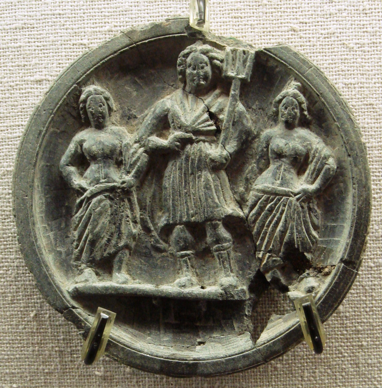 Indo-Greek stone palette with Poseidon/Neptune. Dated 2nd-1st century BCE. Ancient Orient Museum. Personal photograph 2006.